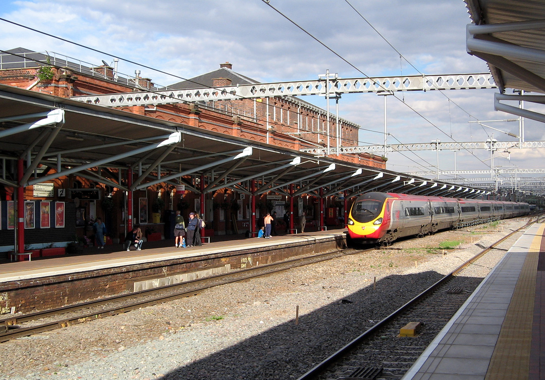 A Virgin Trains Pendolino approaches Rugby railway station as seen from the newly opened platform.